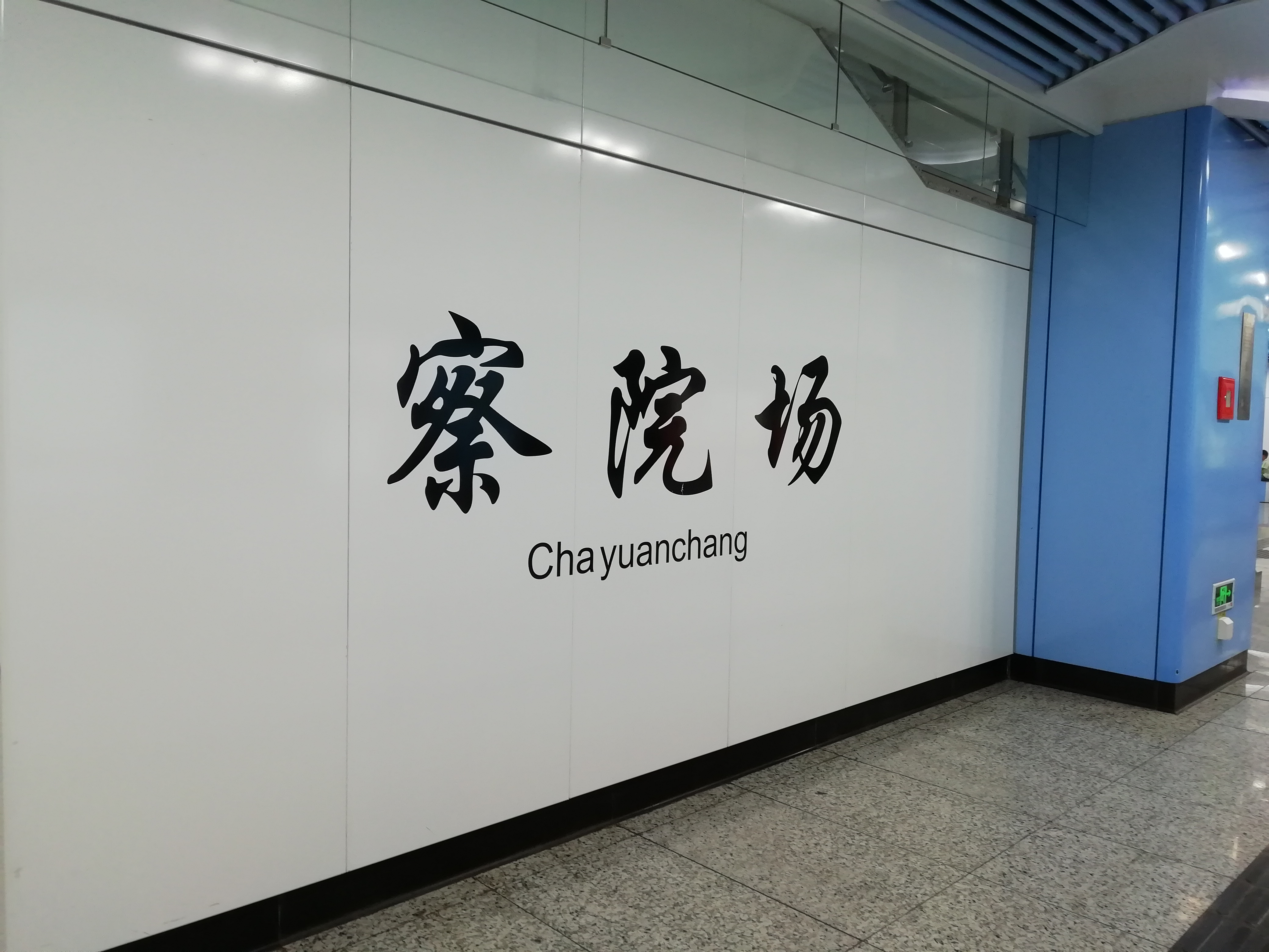 Station Name Wall of Chayuanchang Station of Line 4, Suzhou Rail Transit